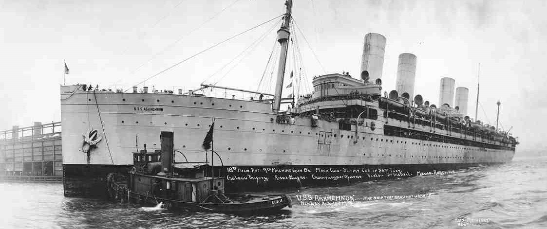 German Steam Ship SS Kaiser Wilhelm II., later USS Agamemnon